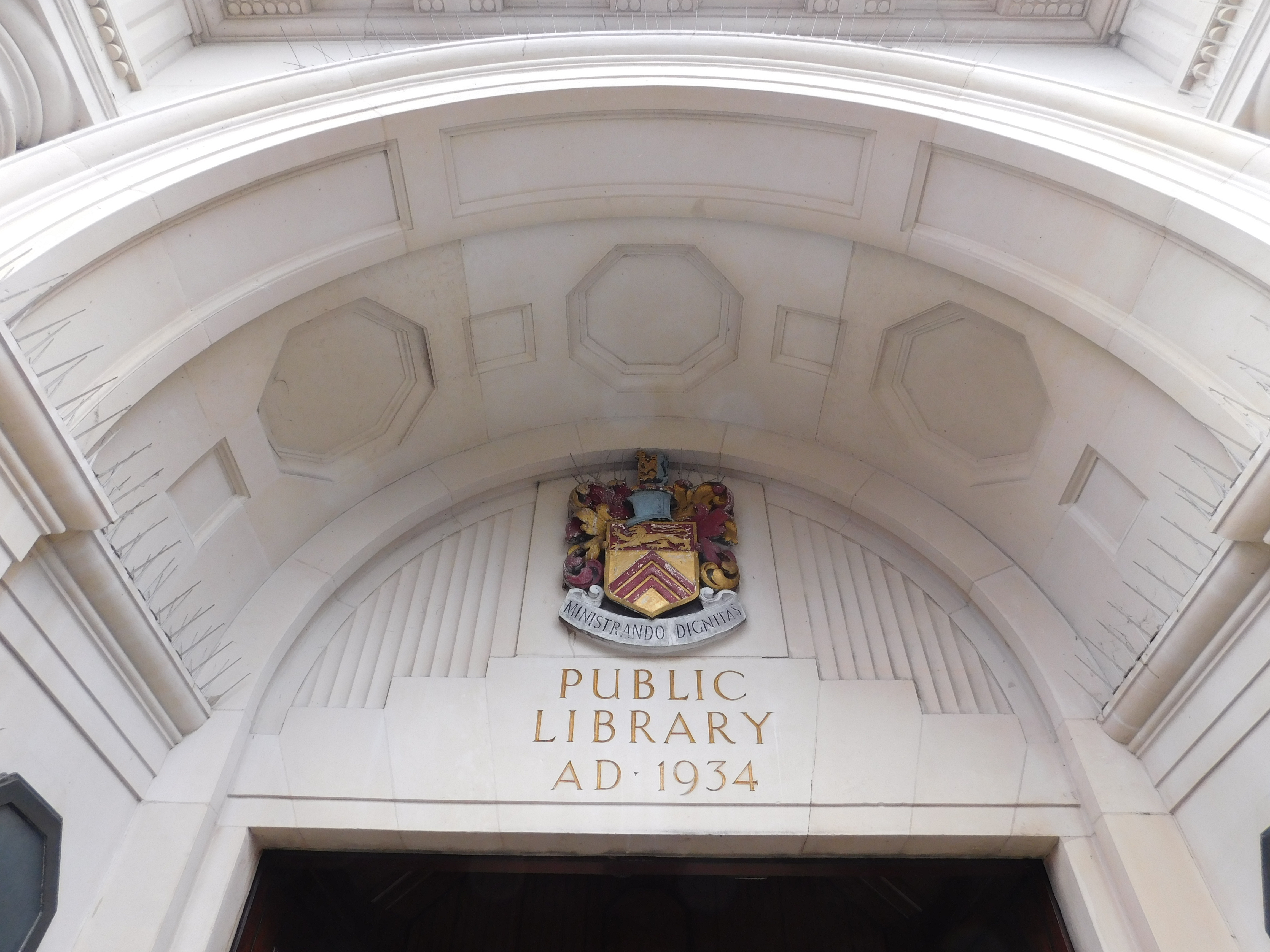 Leytonstone Library Wikidata has entry Q17531944 with data related to this item.